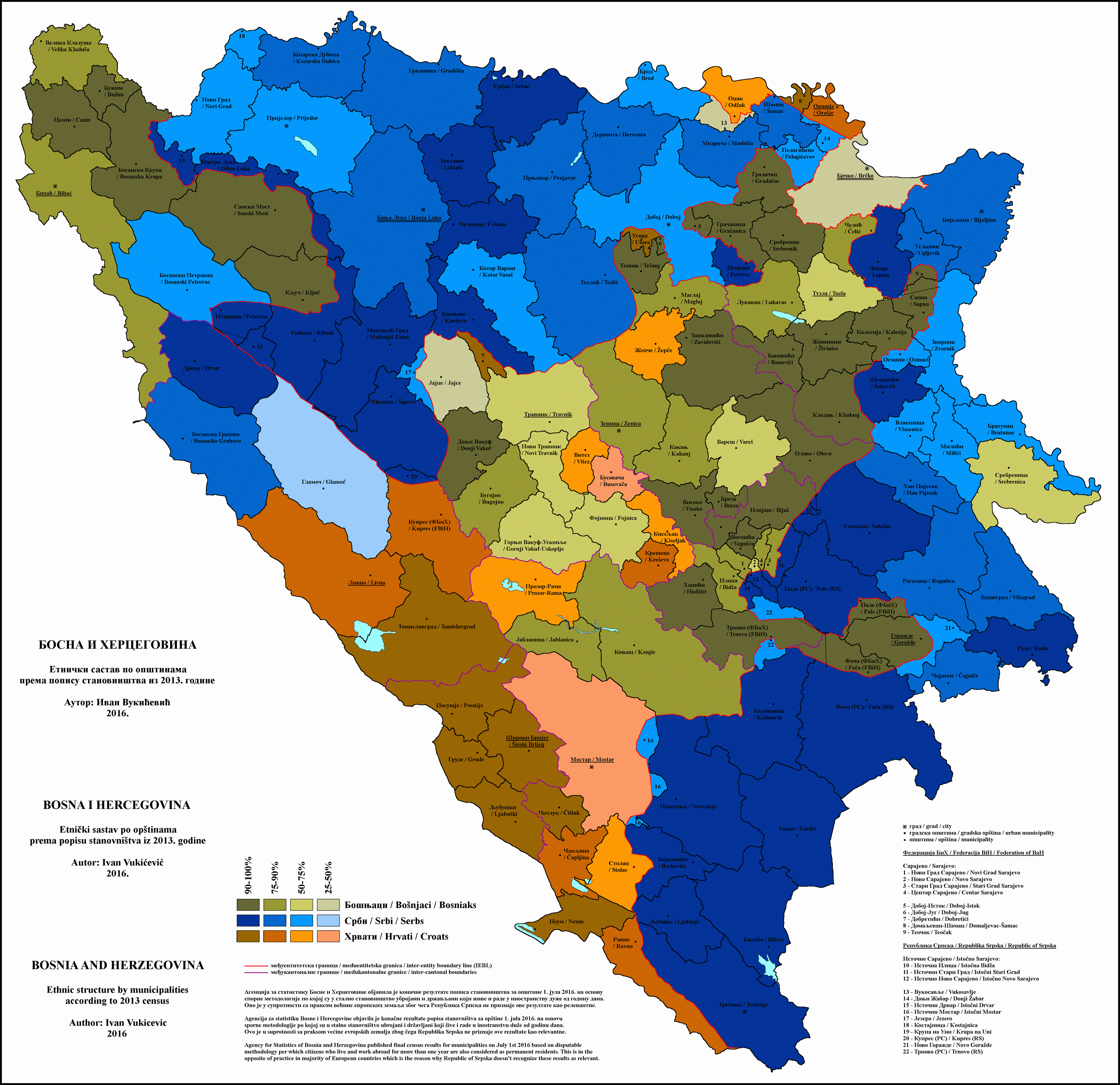 Ethnic structure of Bosnia and Herzegovina by municipalities 2013. Authorː Ivan Vukicevic - Sources: - Census of population, households and dwellings in Bosnia and Herzegovina, 2013 - Final results, Agency for statistics of Bosnian and Herzegovina, 1st of July 2016. - EU legislation on the 2011 Population and Housing Censuses, Eurostat, 2011. Recommendations for status of permanent residents followed by majority of EU member and candidate countries on page 66, Topic: Place of usual residence, paragraph (d)ː An institution shall be taken as the place of usual residence of all its residents who at the time of the census have spent, or are likely to spend, 12 months or more living there. - Public announcement, 4th of July 2016, Republic of Srpska Institute of Statistics, 4th of July 2016. With this announcement institute disputes the methodology used by Agency for statistics of Bosnia and Herzegovina.